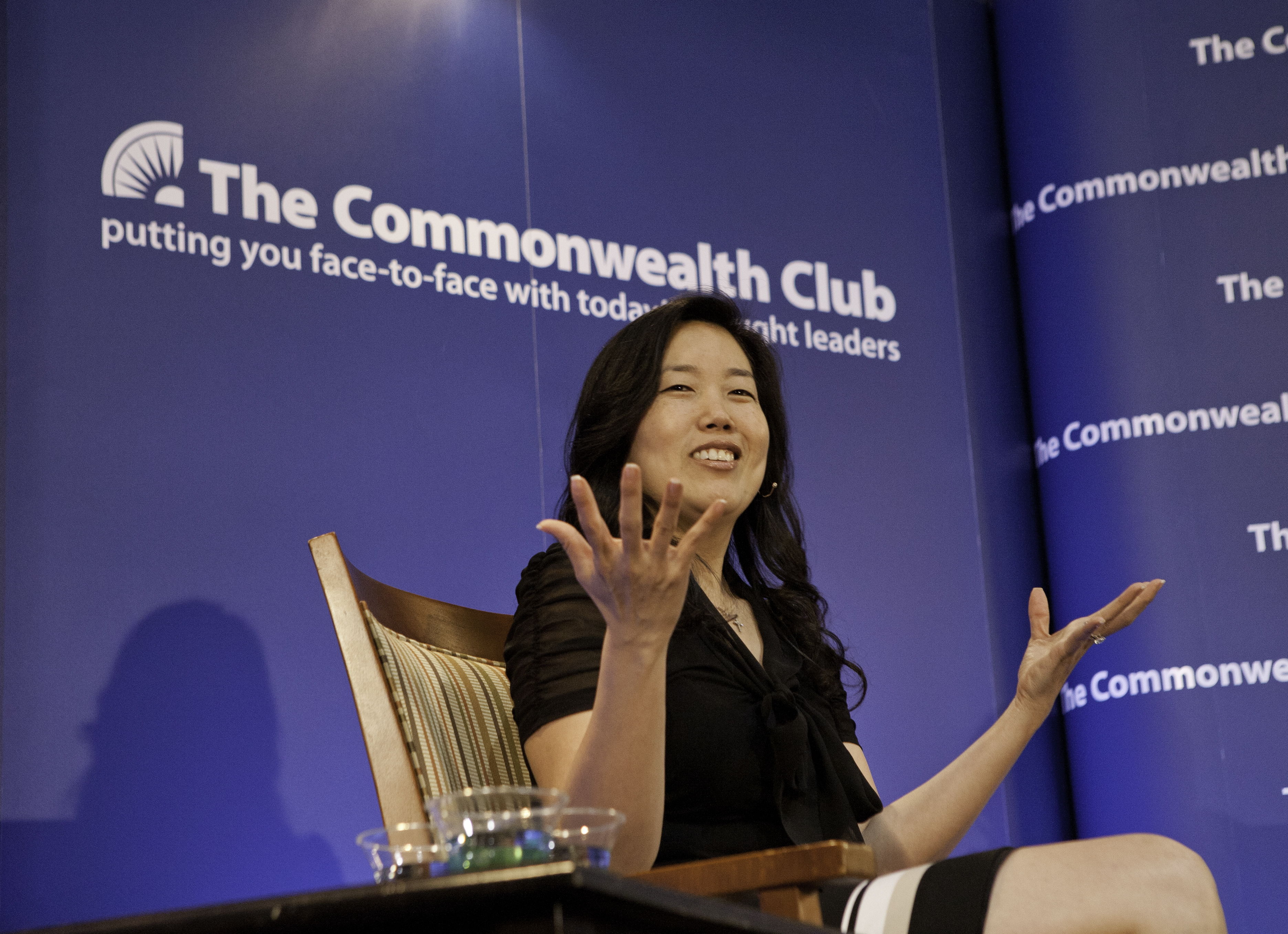 Former Washington, D.C., schools chancellor and author of Radical, Michelle Rhee spoke to The Commonwealth Club of California on March 21, 2013. She was in conversation with Kirk Hanson, Executive Director, Markkula Center for Applied Ethics, Santa Clara University. Photos by Rikki Ward.